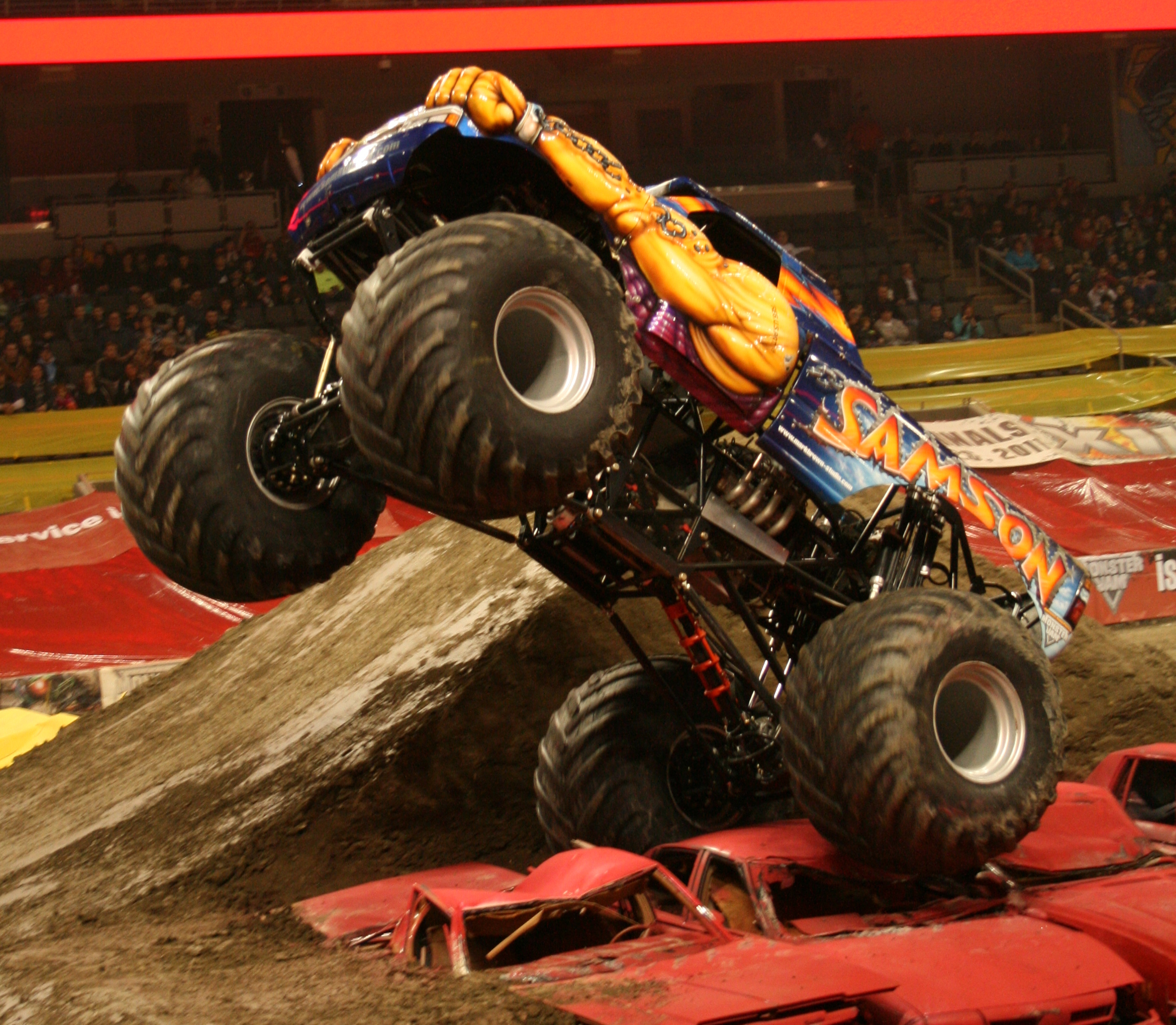 Samson